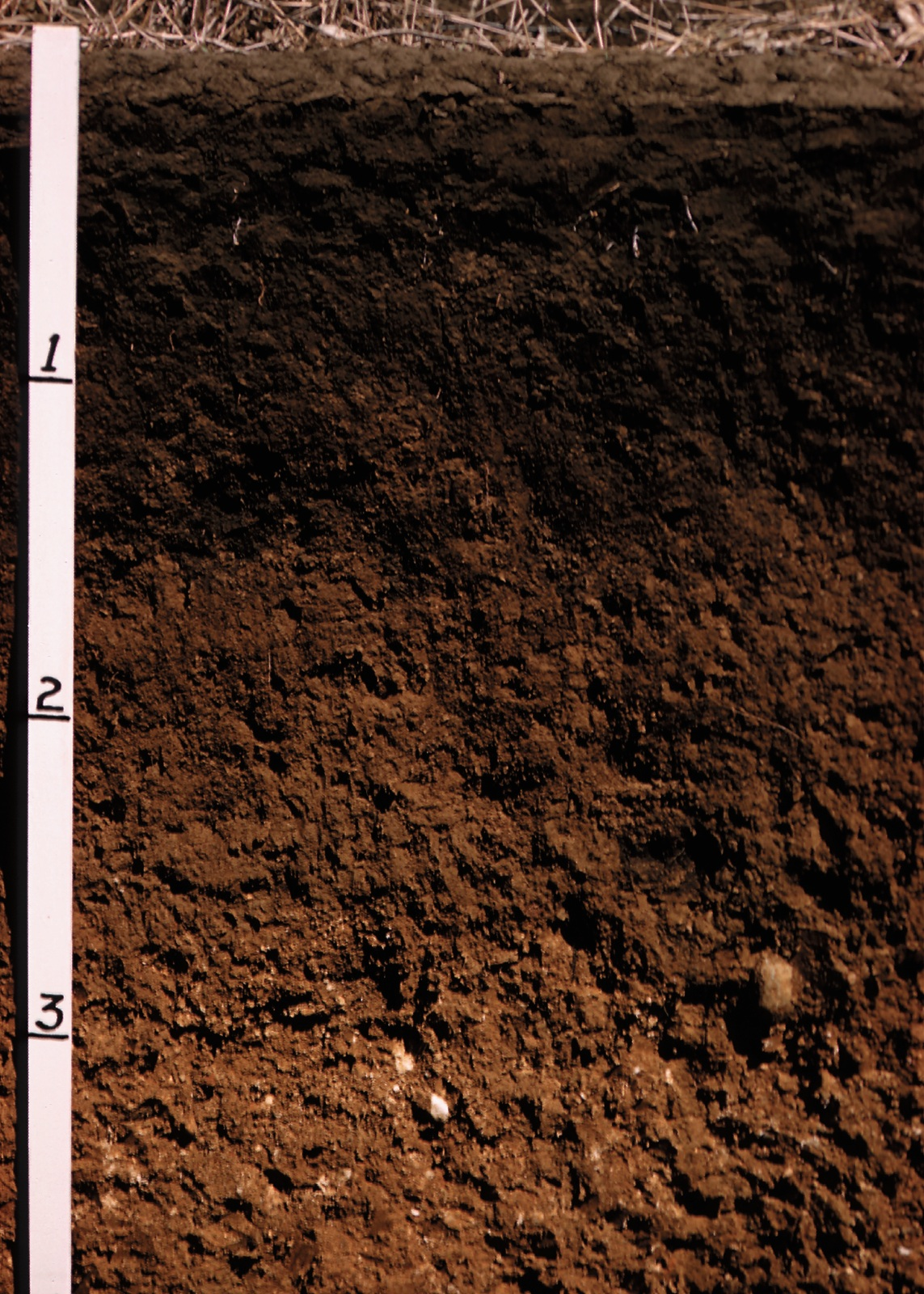 Clarion soil is one of Iowa's soil types.